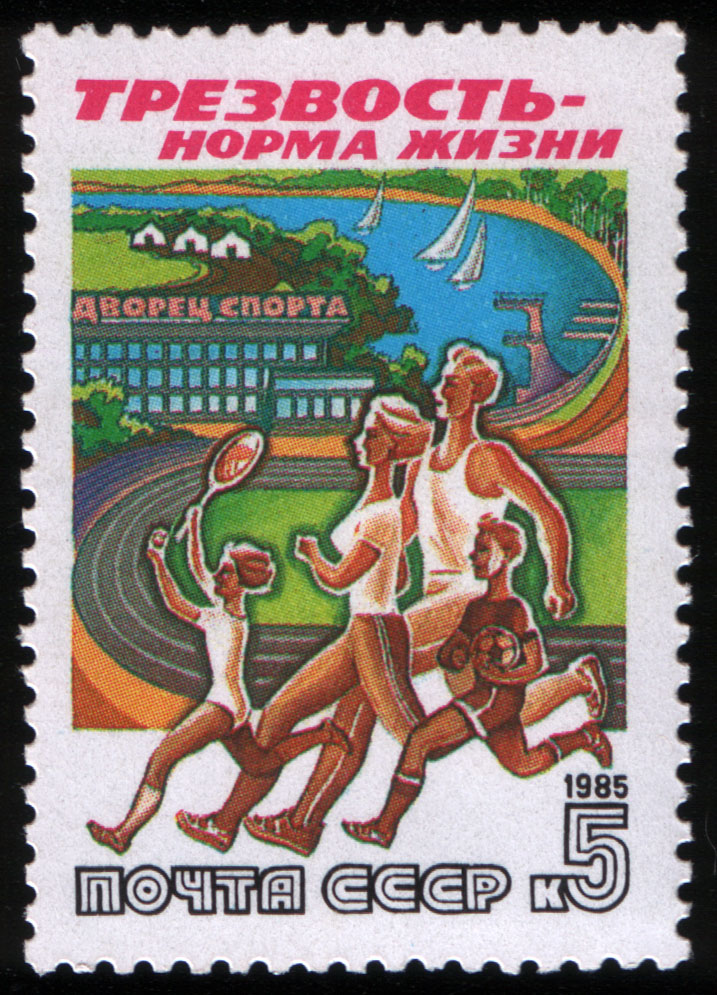 USSR stamp, Sobriety - standard of a life, 1985, 5 kop.